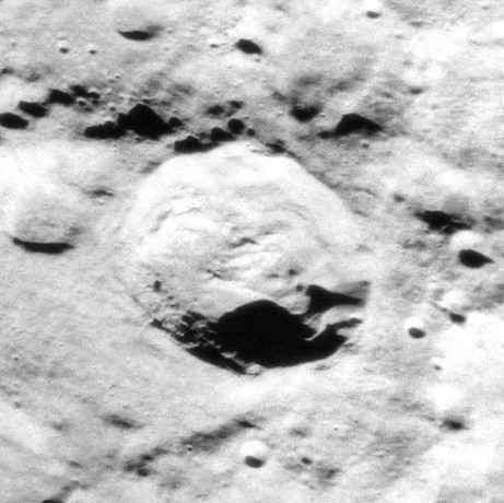 Oblique view of Bjerknes crater, on the moon, facing east. From Apollo 17 mapping camera during trans-Earth injection.